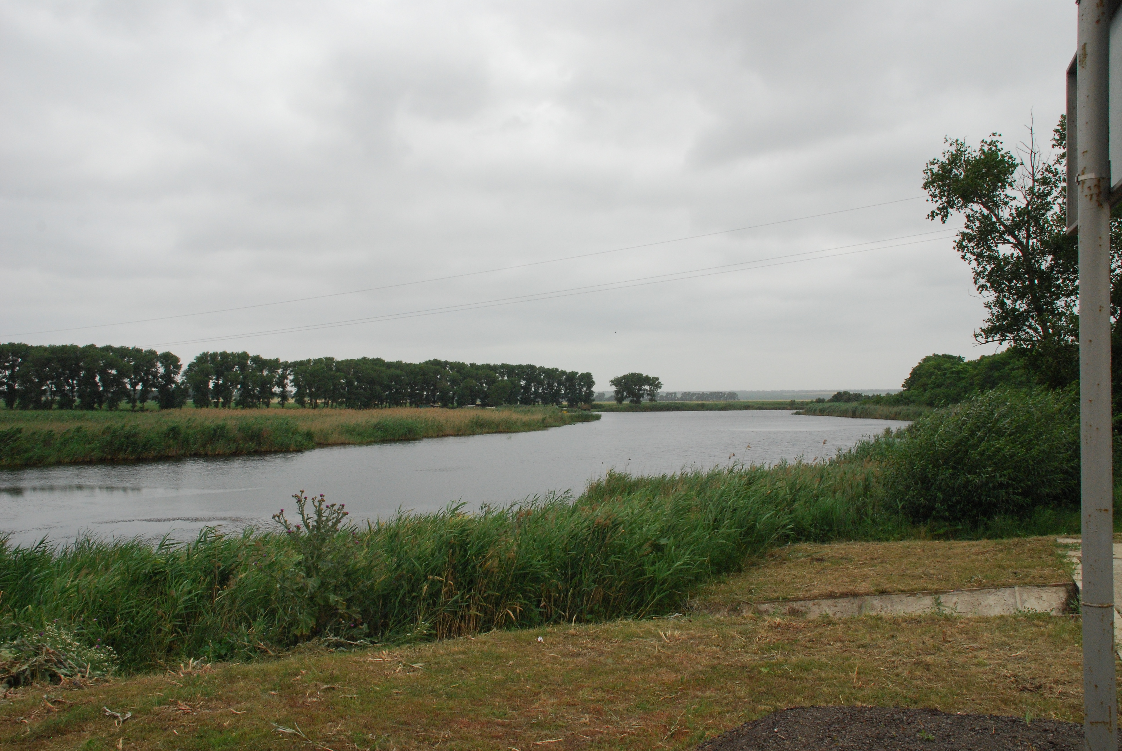 Kavalerka River in Krasnodar Krai.